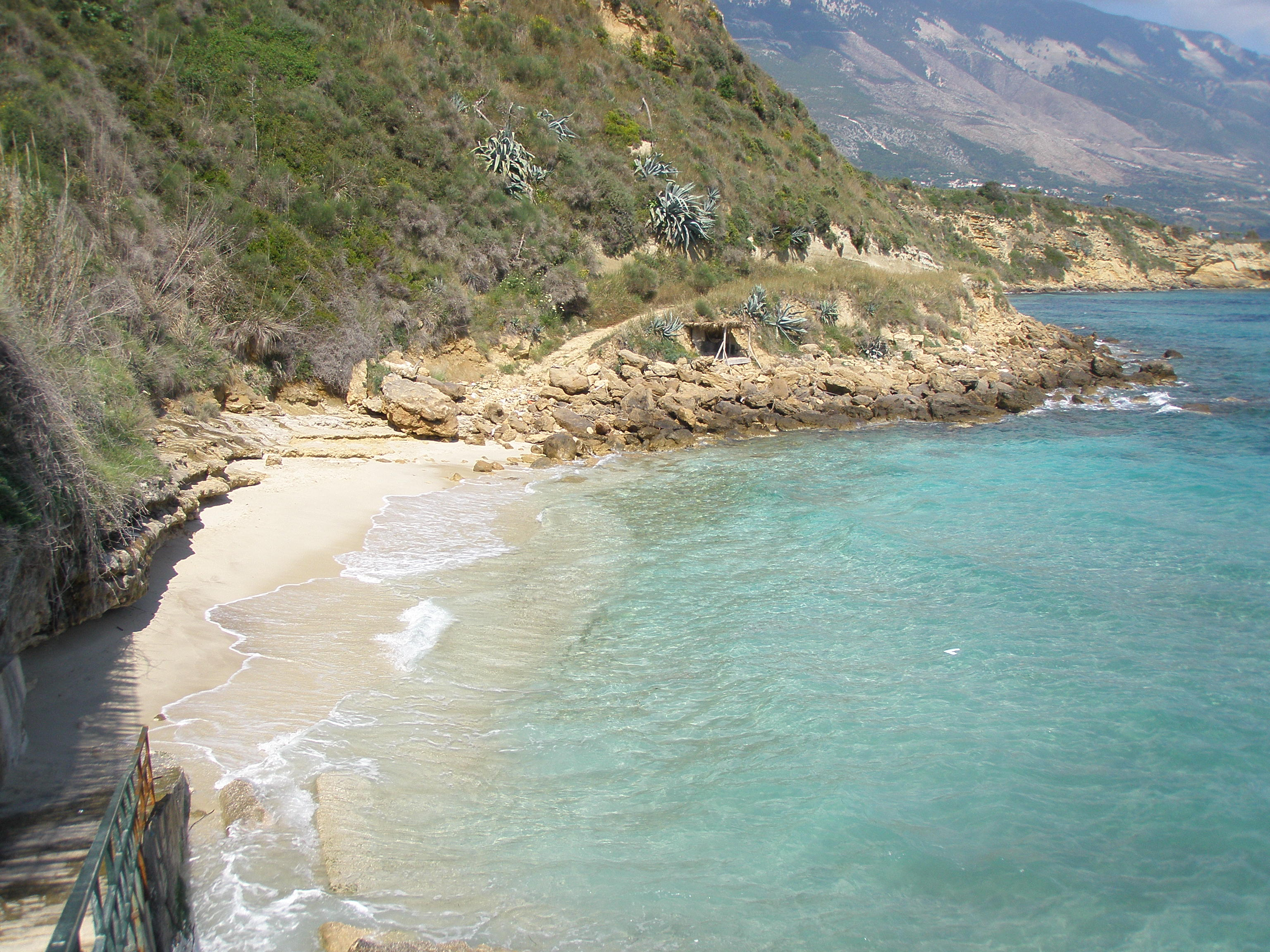 The sandy beach at Agios Thomas in Karavados village, on the island of Kefalonia, Greece